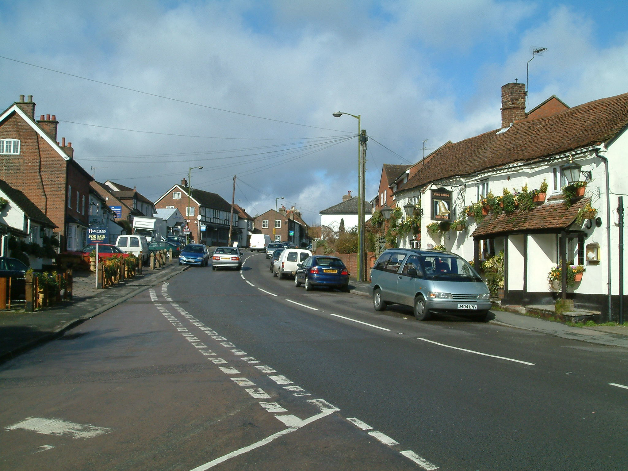 Bovingdon High Street looking north with The Bell public house opposite.